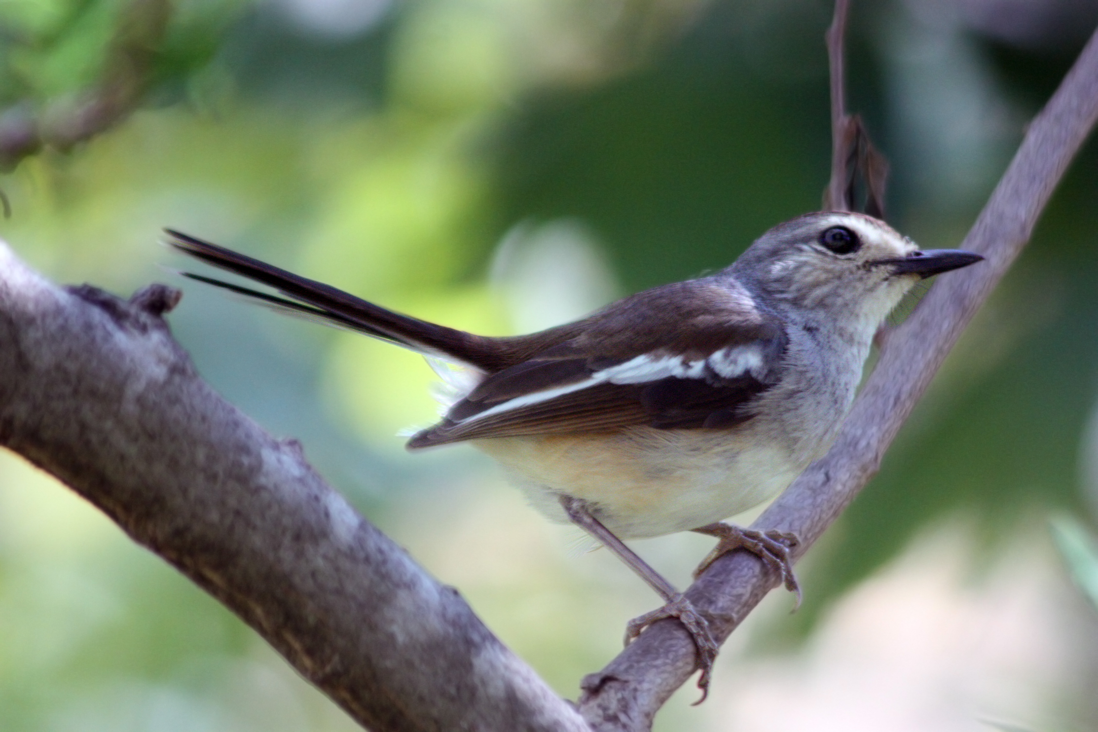 Madagascar magpie-robin (Copsychus albospecularis), female, in Anjajavy Forest, Madagascar